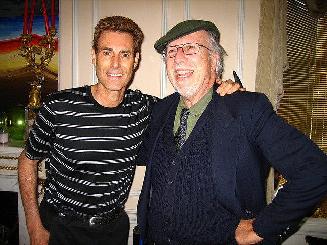 Uri Geller (left) with Jack Sarfatti